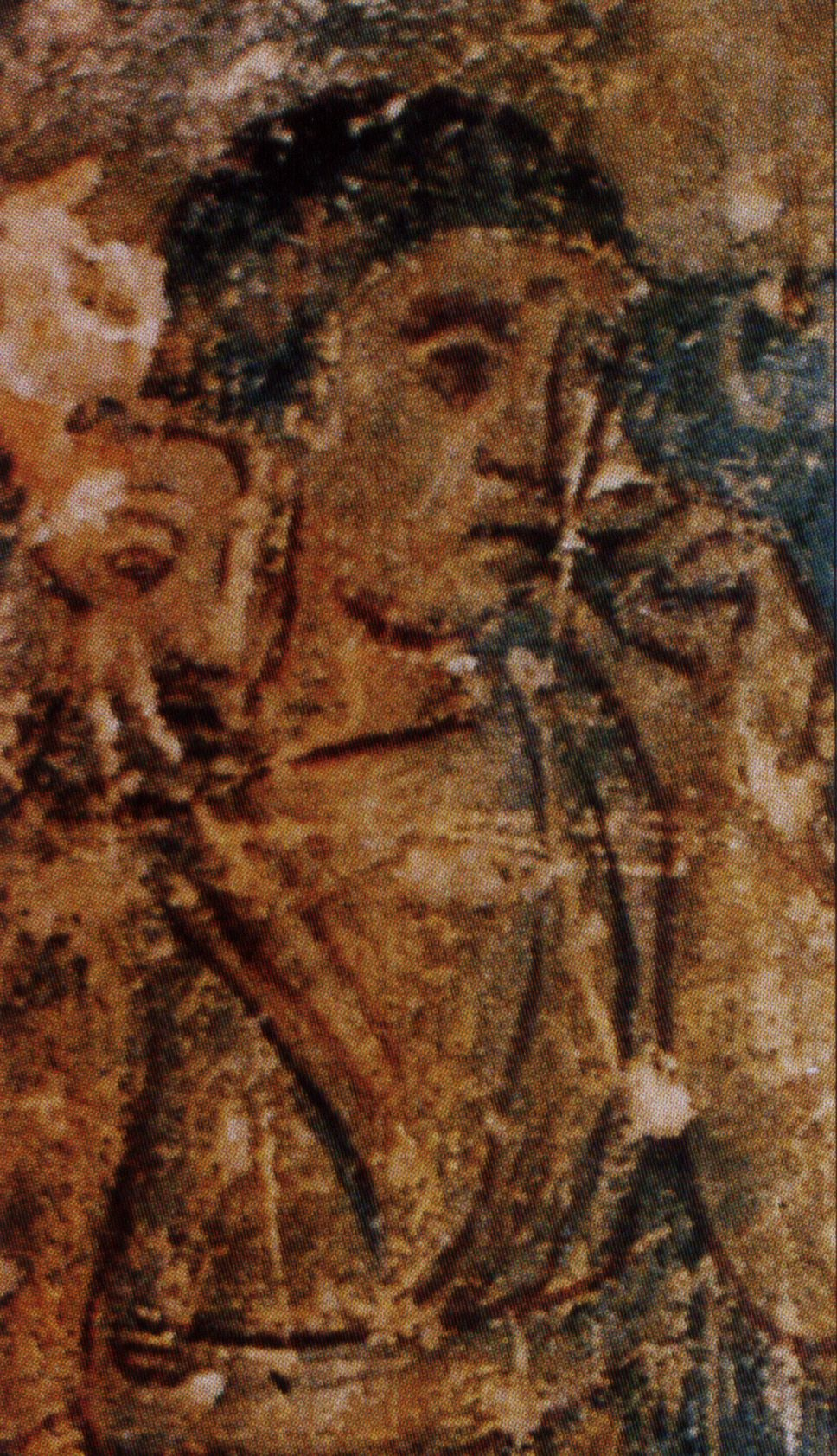 Detail of 8th-century Qasr Amra hammam-bathouse fresco. Umayyad art in Jordan.